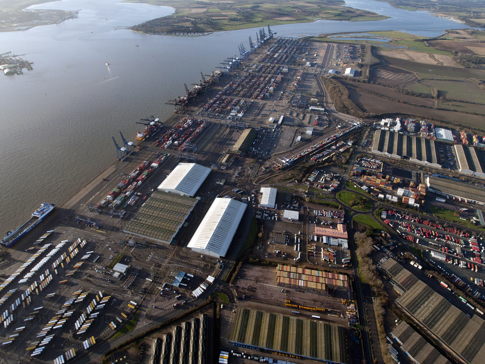 The Dock, Felixstowe, Suffolk, IP11 3SY.